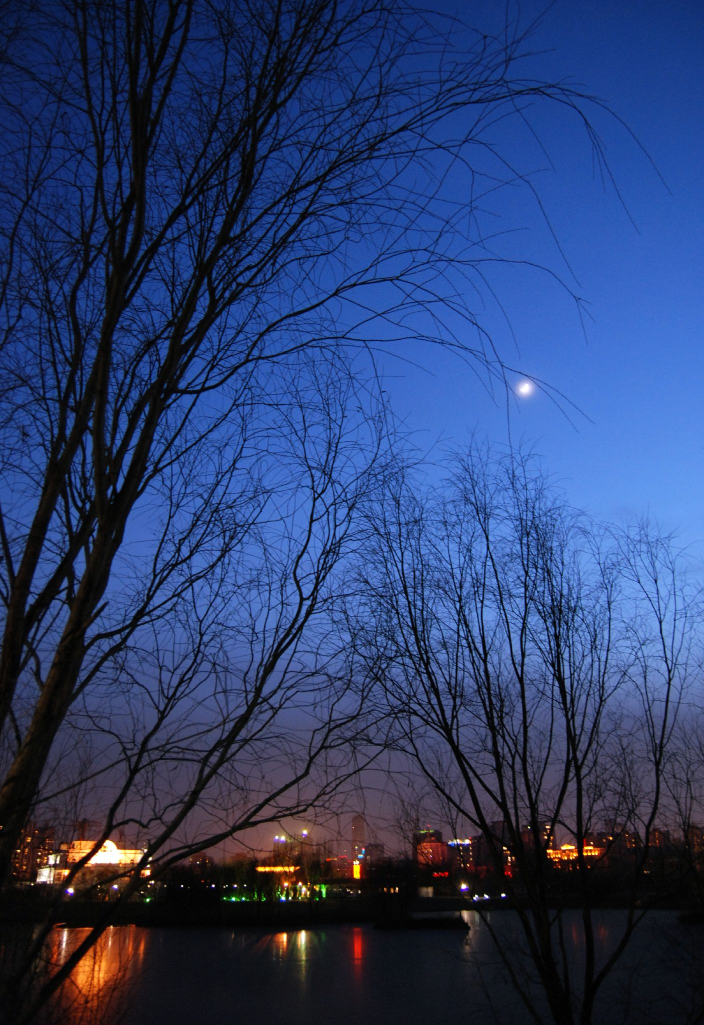 The Chaoyang Park in Beijing